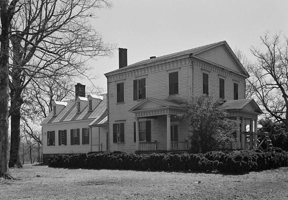 Elgin, State Route 1509, Warrenton vicinity (Warren County, North Carolina) - cropped This file comes from the Historic American Buildings Survey (HABS), Historic American Engineering Record (HAER) or Historic American Landscapes Survey (HALS). These are programs of the National Park Service established for the purpose of documenting historic places. Records consist of measured drawings, archival photographs, and written reports. When reusing please credit: Library of Congress, Prints & Photographs Division, NC,93-WARTO.V,2-1 This tag does not indicate the copyright status of the attached work. A normal copyright tag is still required. See Commons:Licensing for more information. English | +/− This work is in the public domain in the United States because it is a work prepared by an officer or employee of the United States Government as part of that person’s official duties under the terms of Title 17, Chapter 1, Section 105 of the US Code. See Copyright. Note: This only applies to original works of the Federal Government and not to the work of any individual U.S. state, territory, commonwealth, county, municipality, or any other subdivision. This template also does not apply to postage stamp designs published by the United States Postal Service since 1978. (See 206.02(b) of Compendium II: Copyright Office Practices). It also does not apply to certain US coins; see The US Mint Terms of Use. This file has been identified as being free of known restrictions under copyright law, including all related and neighboring rights. Object location36° 23′ 06″ N, 78° 06′ 09″ W